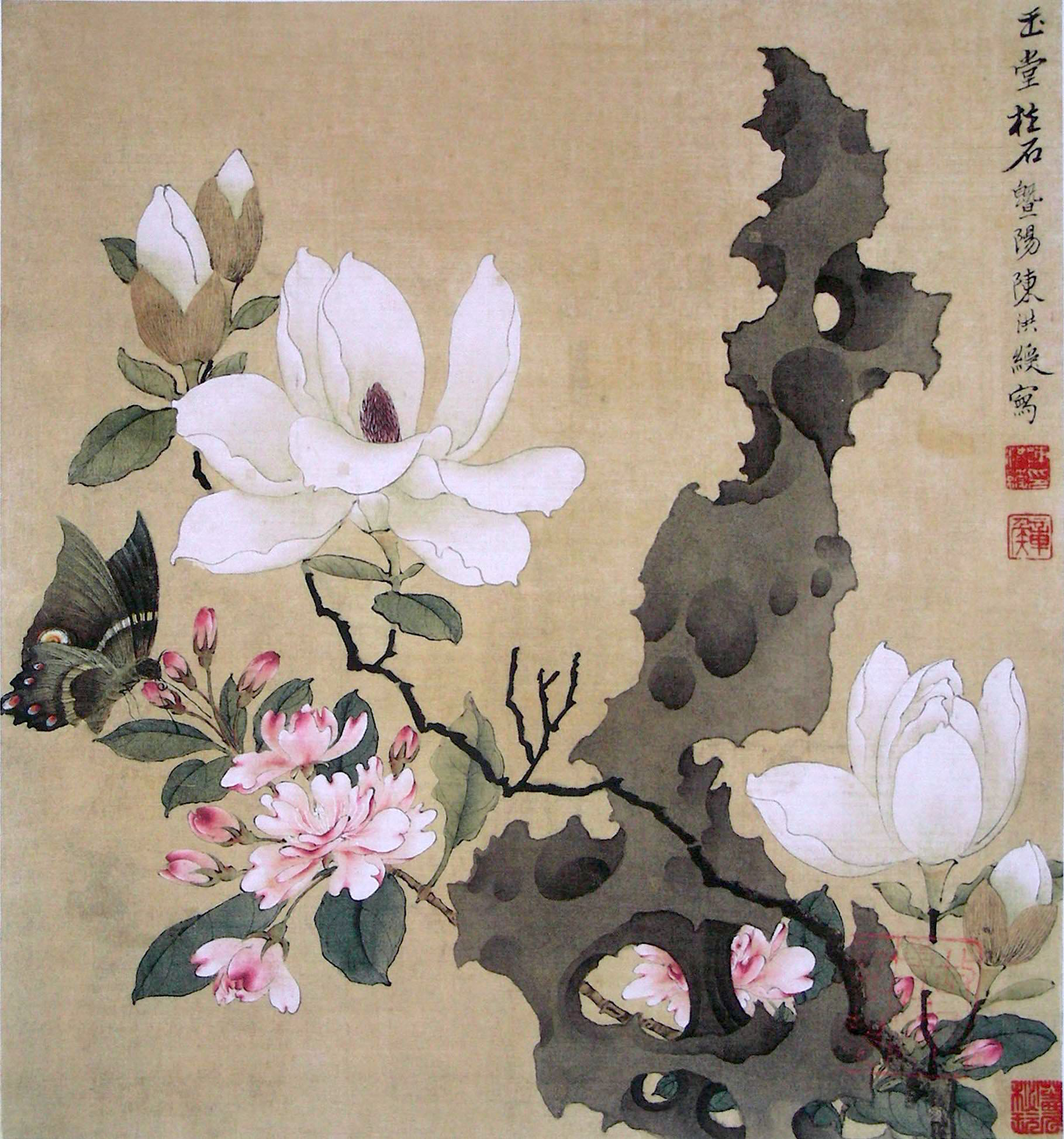 Painting by the Chinese Ming Dynasty artist Chen Hongshou (1599-1652), leaf from an album of miscellaneous paintings.